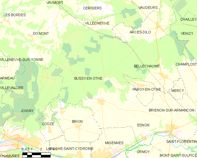 Map of French municipality Bussy-en-Othe